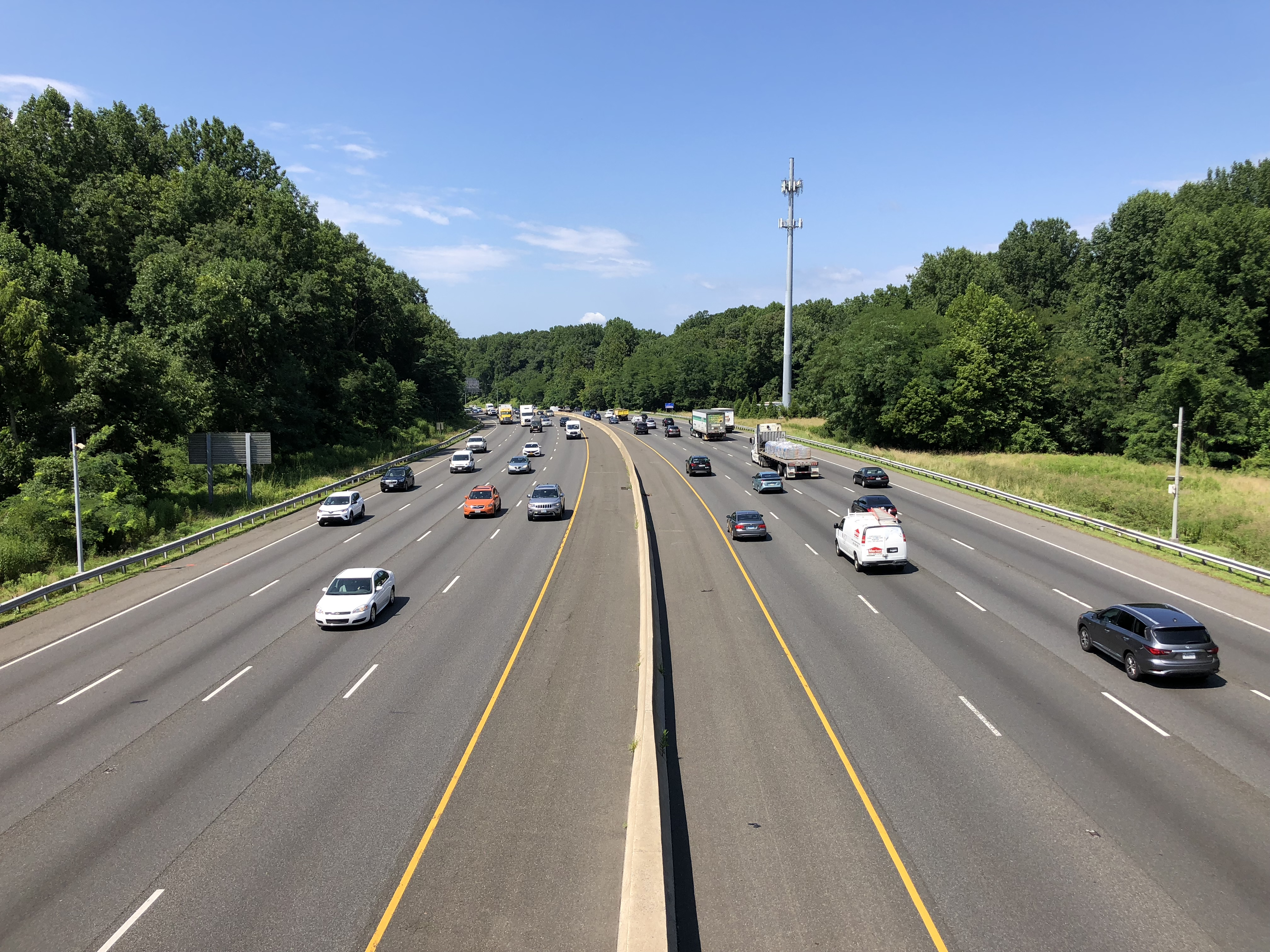 View south along Interstate 495 (Capital Beltway) from the overpass for Persimmon Tree Road on the edge of Cabin John and Potomac in Montgomery County, Maryland